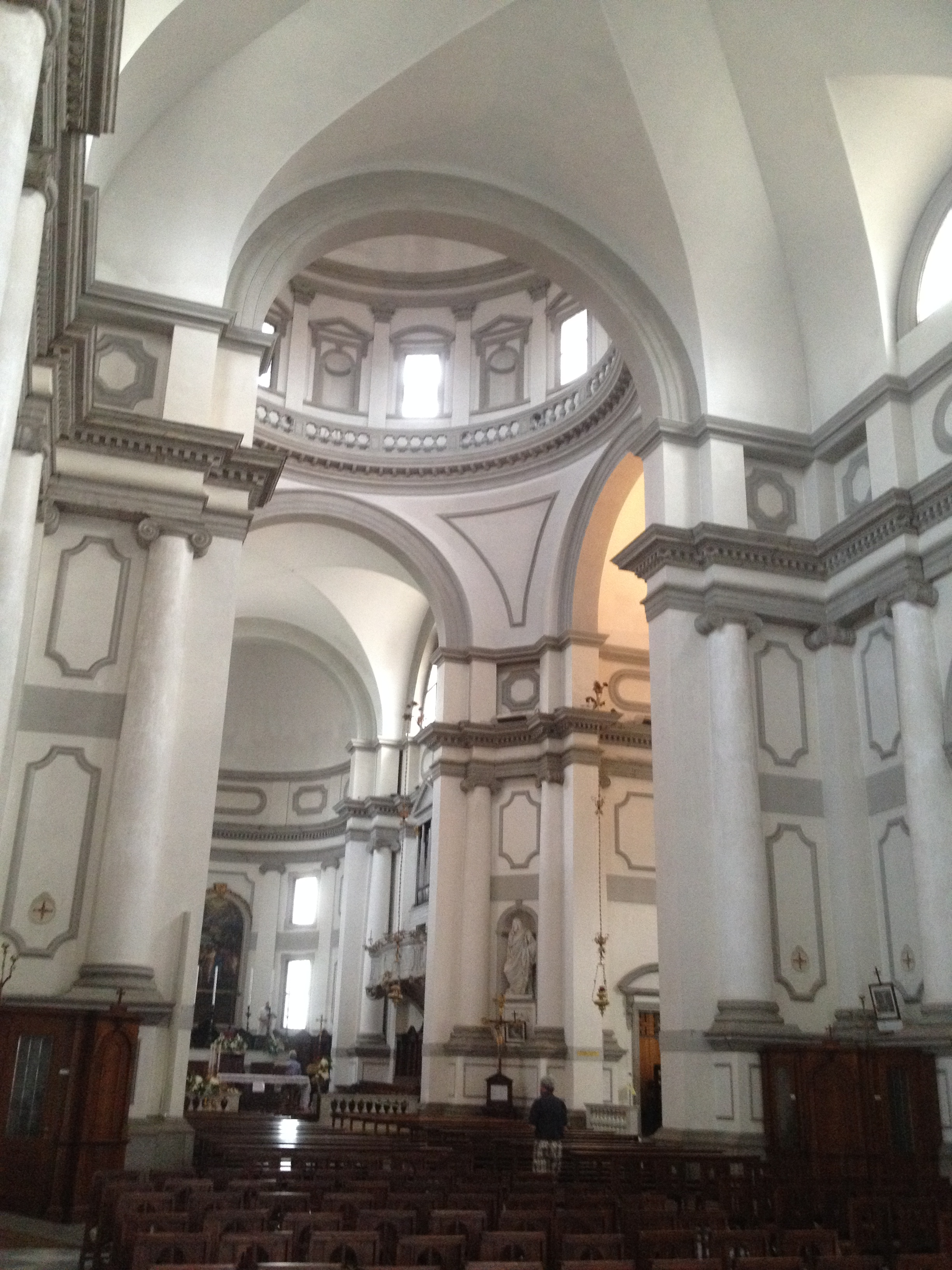 Duomo di Santa Maria Assunta e San Liberale